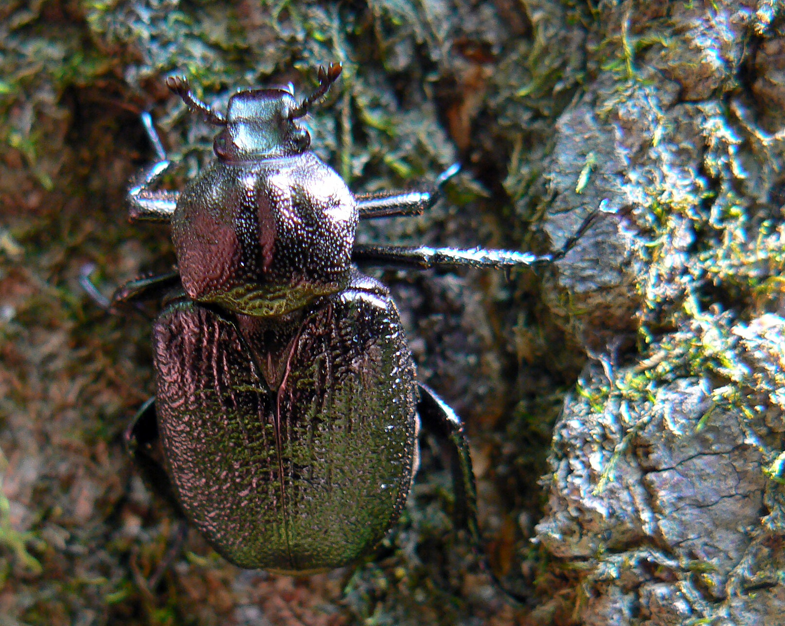 What metal would you describe this beetle as resembling? Oops, although I initially misidentified this guy as an Oriental Beetle, an invasive pest, it looks like it's actually an Osmoderma scabrum, a benign scarab, native to the northeastern US.